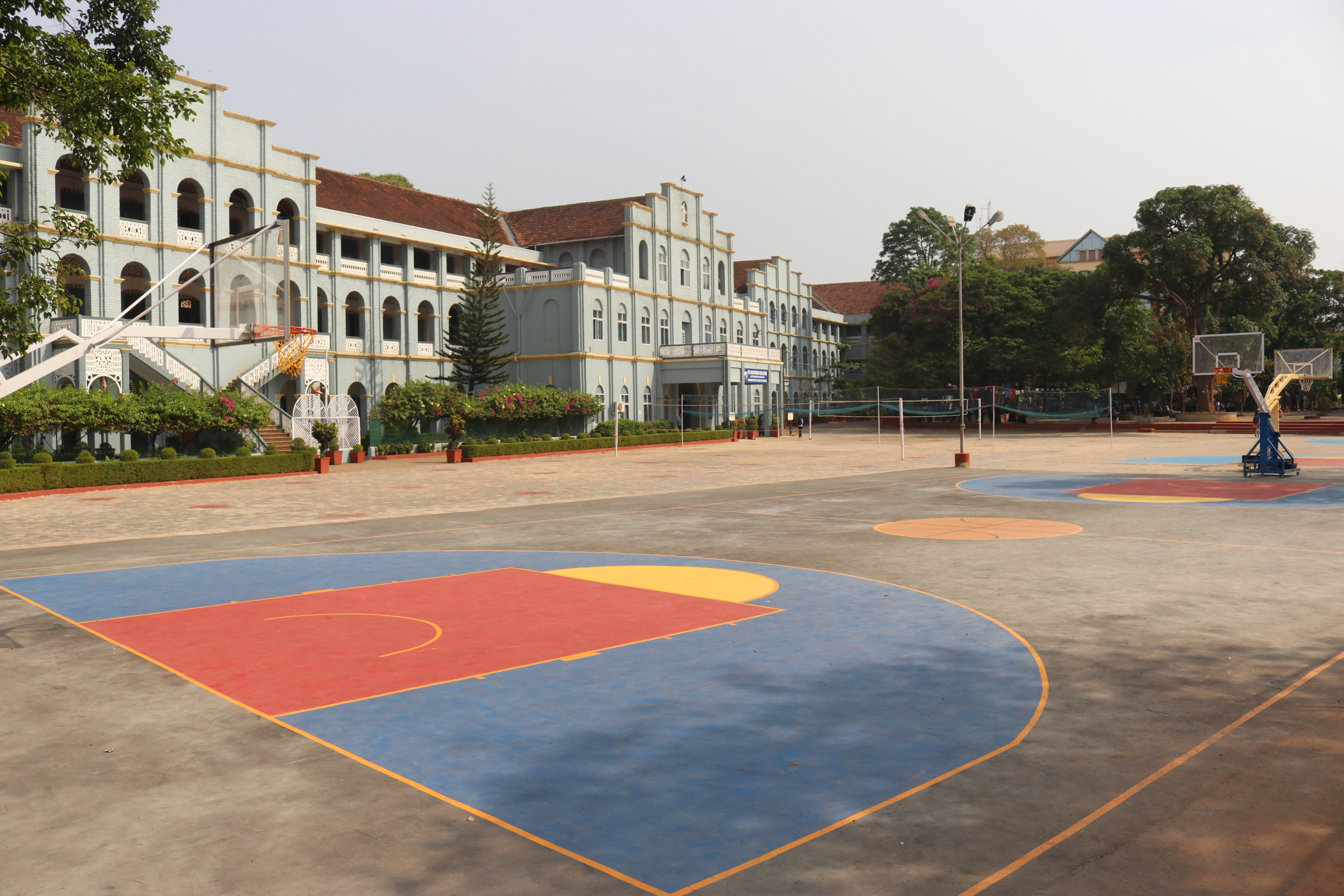 Front left view of St.Aloysius college(Autonomous)Mangalore